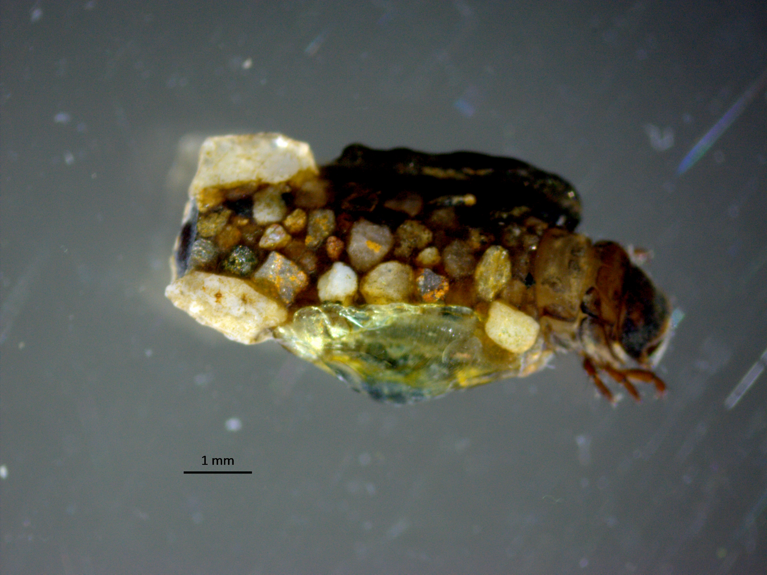 Silo nigricornis larva from Dragovištica river (SE Serbia). Српски (ћирилица): Ларва Silo nigricornis из Драговиштице (општина Босилеград, ЈИ Србија).